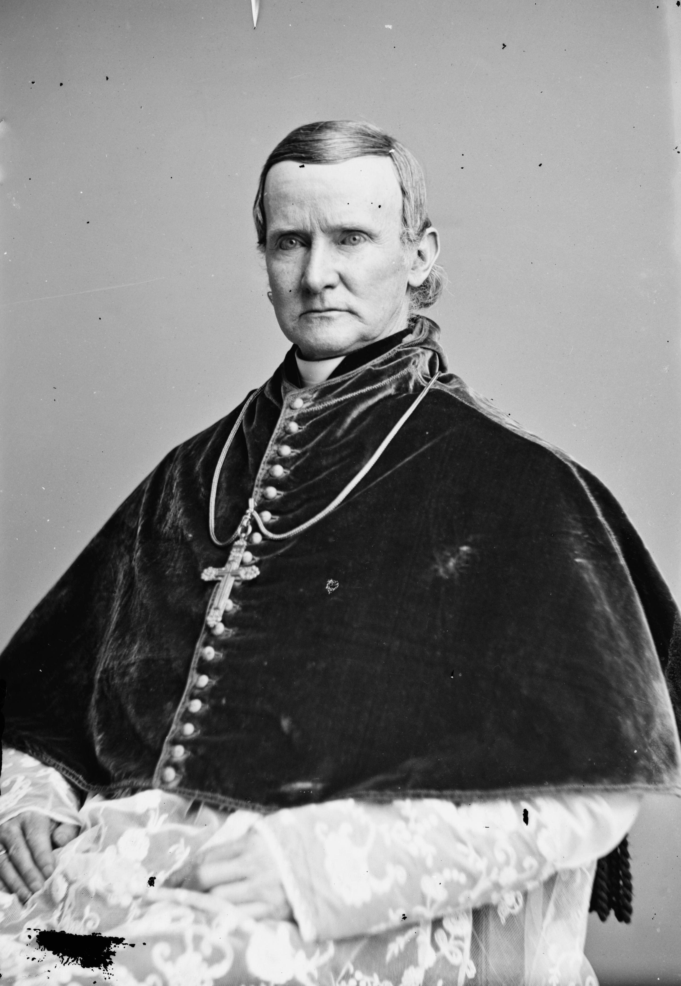 John Cardinal McCloskey. Library of Congress description: "Archbishop McCloskey"